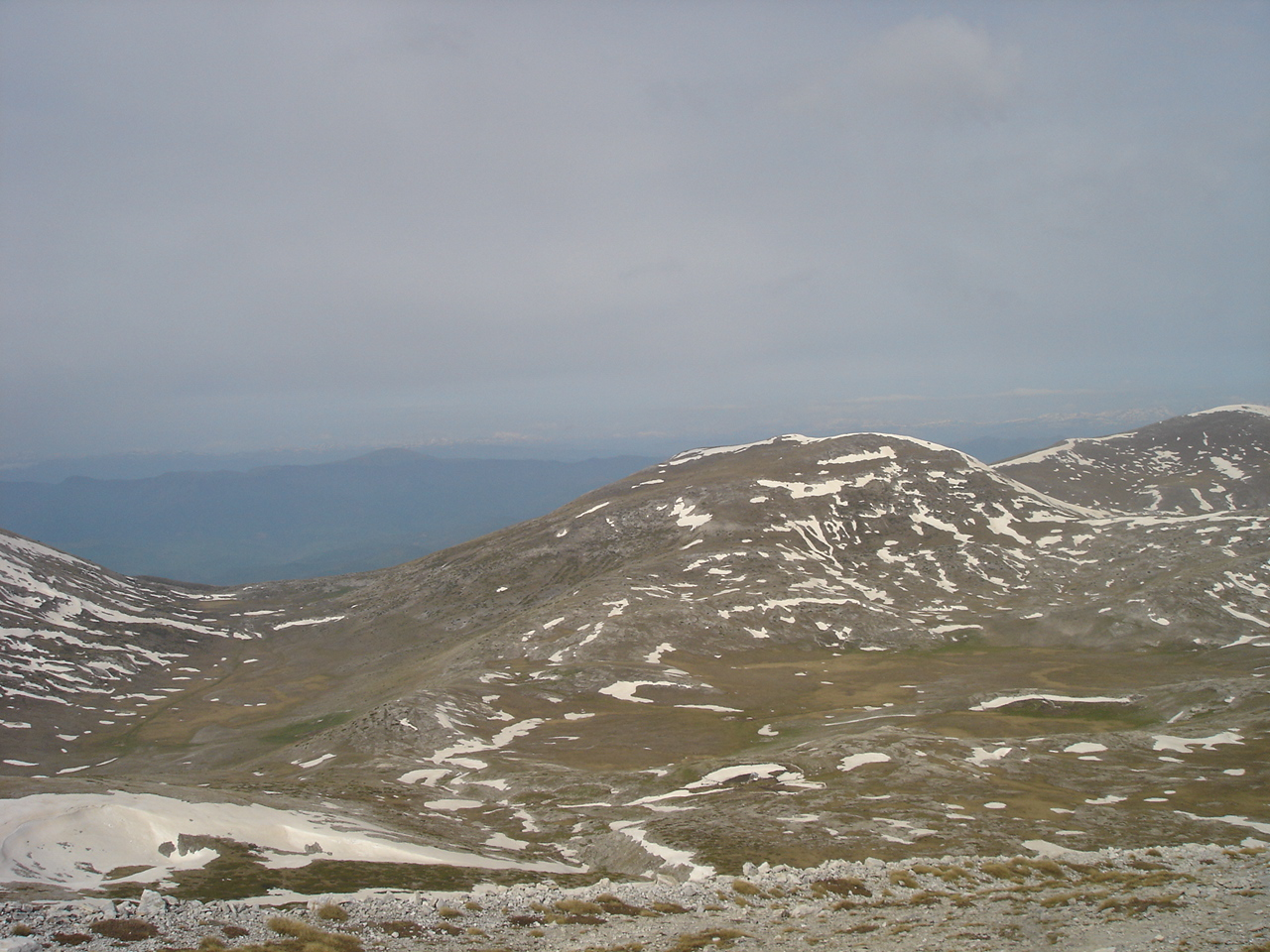 Solunsko Pole highland on Jakupica, Macedonia